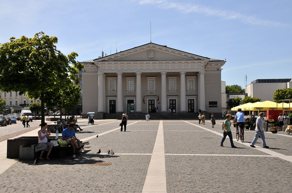 The Town Hall in Vilnius was mentioned for the first time in 1432. Initially it was a Gothic style building, and has since been reconstructed many times. The current Vilnius Town Hall was rebuilt in neoclassical style according to the design by Laurynas Gucevičius in 1799. It has remained unchanged since then. Its Gothic cellars have been preserved and may be visited. Nowadays it is used for representational purposes as well as during the visits of foreign state officials and rulers, including George Walker Bush and Queen Elizabeth II. Bron: Wikipedia.